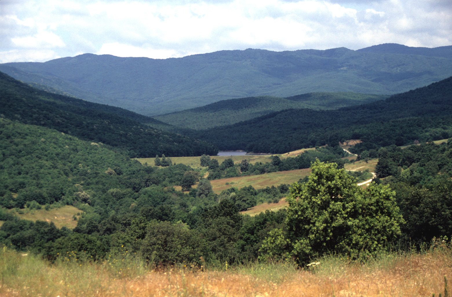 Description: Sredna Gora mountains in Bulgaria, as seen from Thracian tomb near Starosel Photographer: Jeroen Kransen, Netherlands Date of creation: August 9, 2005